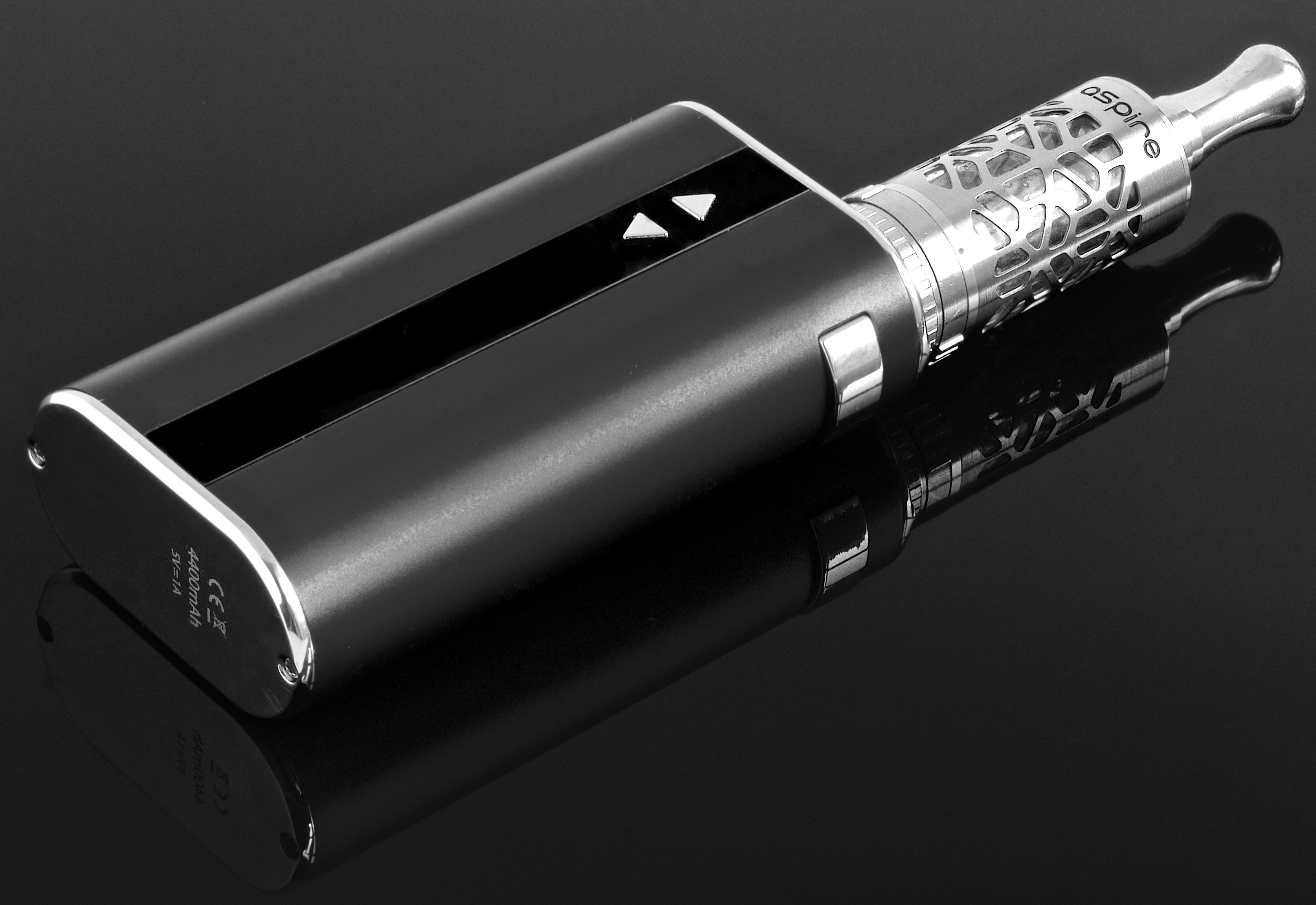 This image is released under Creative Commons. If used, please link to